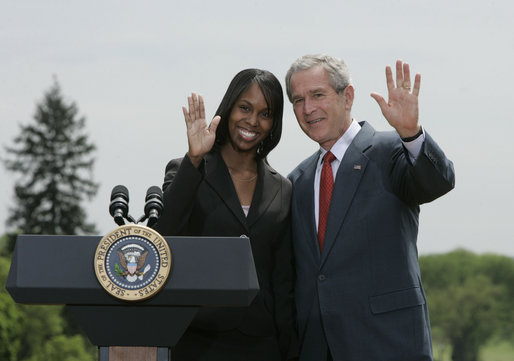 This is a photo of George W. Bush and Kimberly Oliver, the 2006 national teacher of the year.